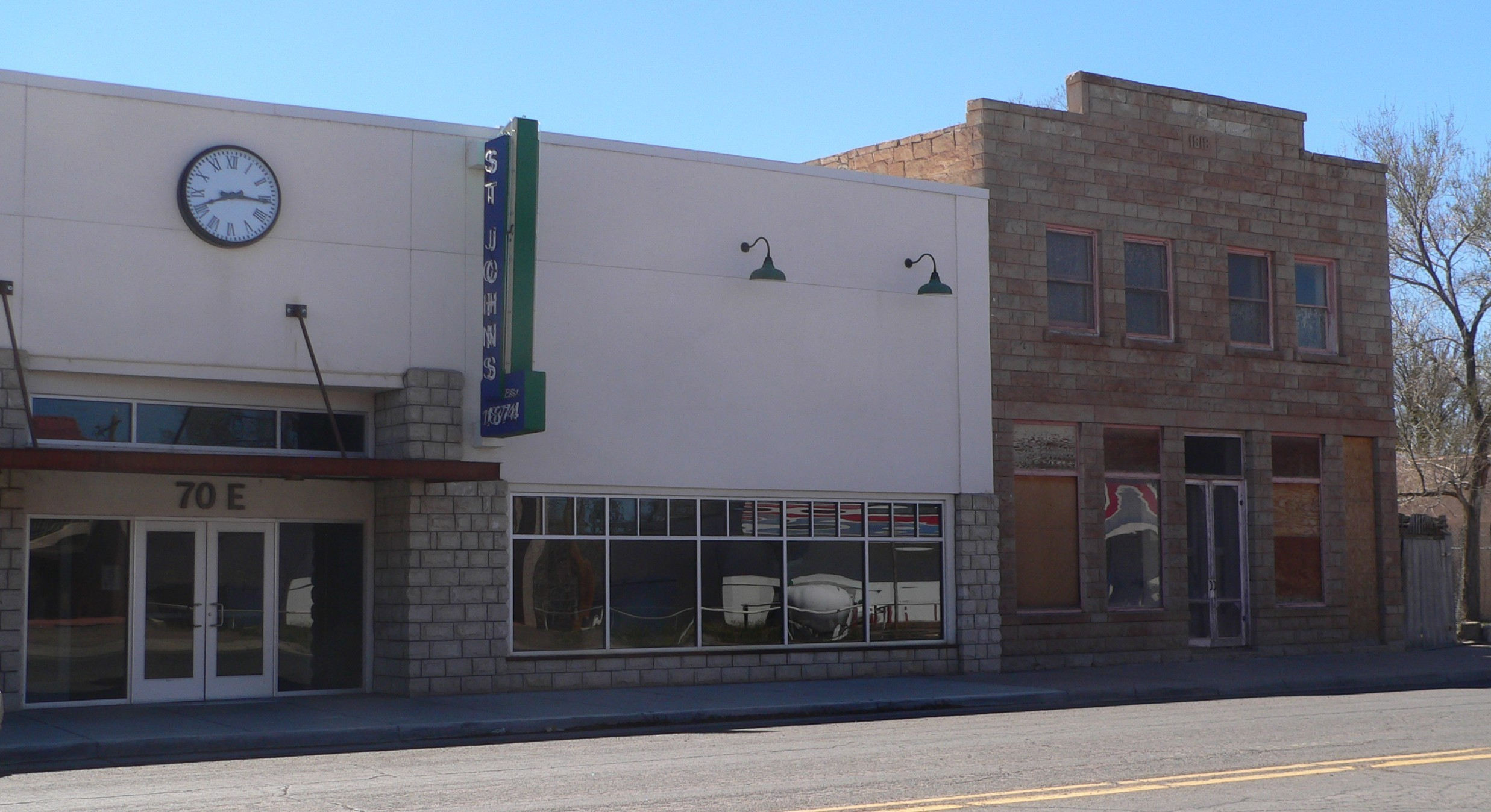 Isaacson building, on south side of Commercial Street in St. Johns, Arizona; next door to St. Johns municipal building, with address 70 E. Commercial.